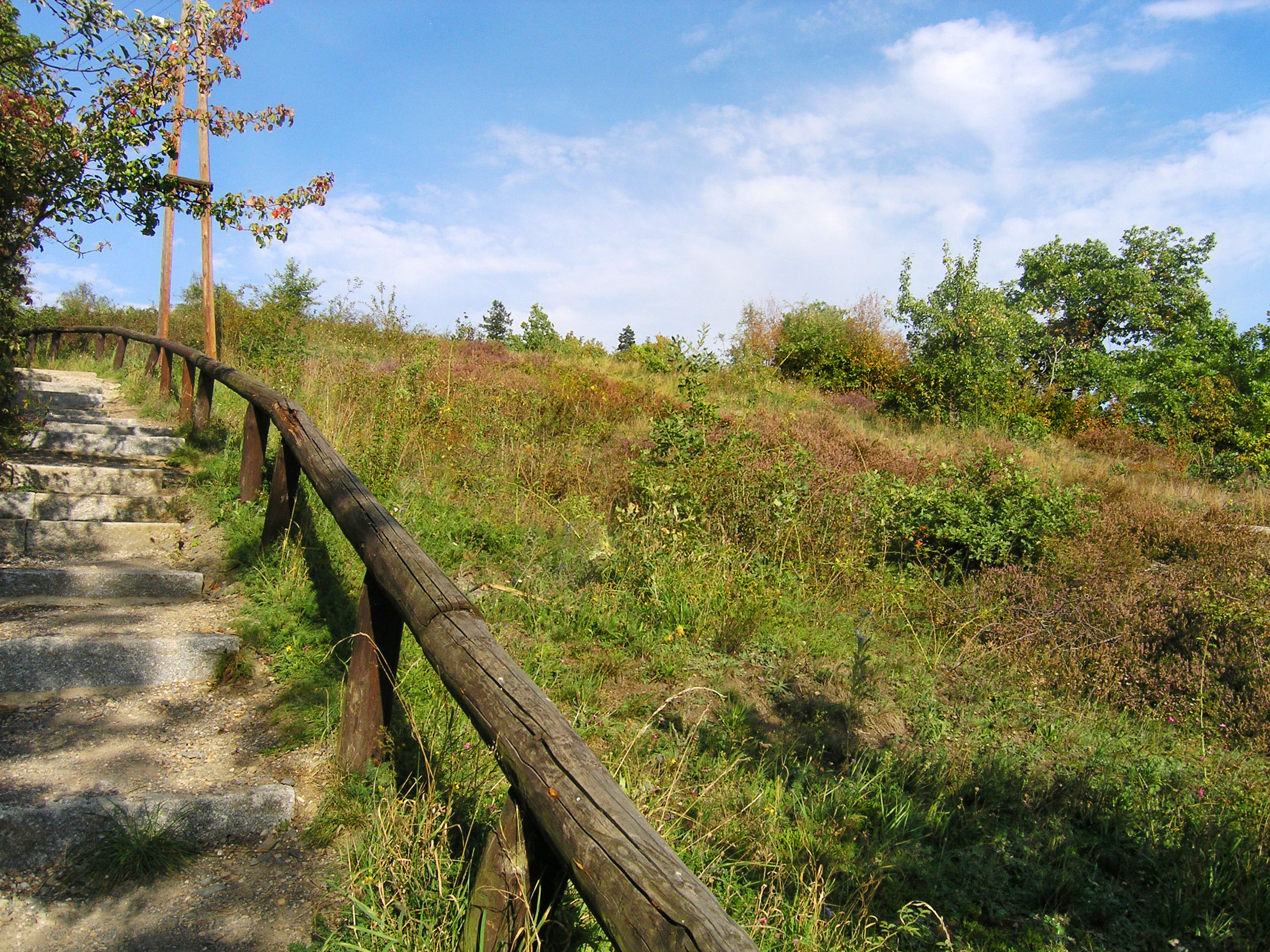 Small moorland in Havránka natural reserve in Troja, Prague